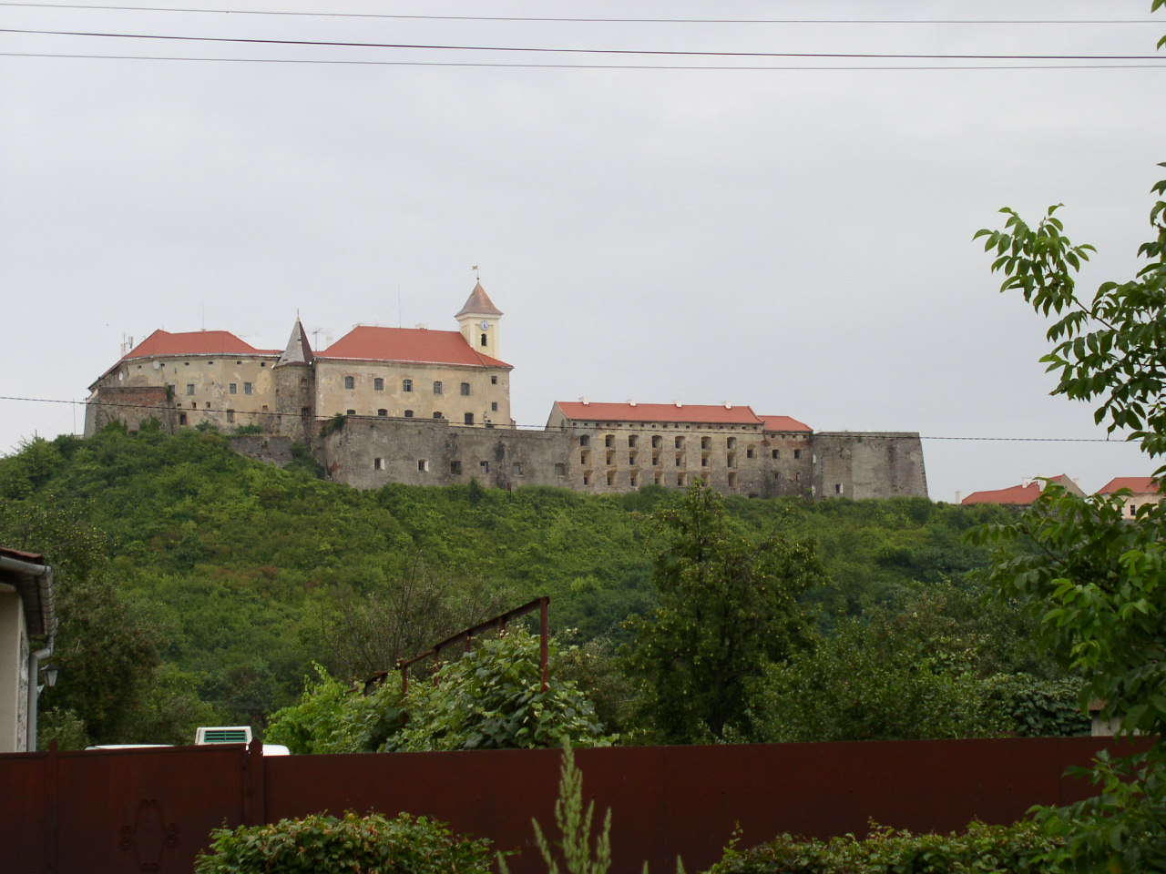 Palanok сastle. Mukacheve, Ukraine.